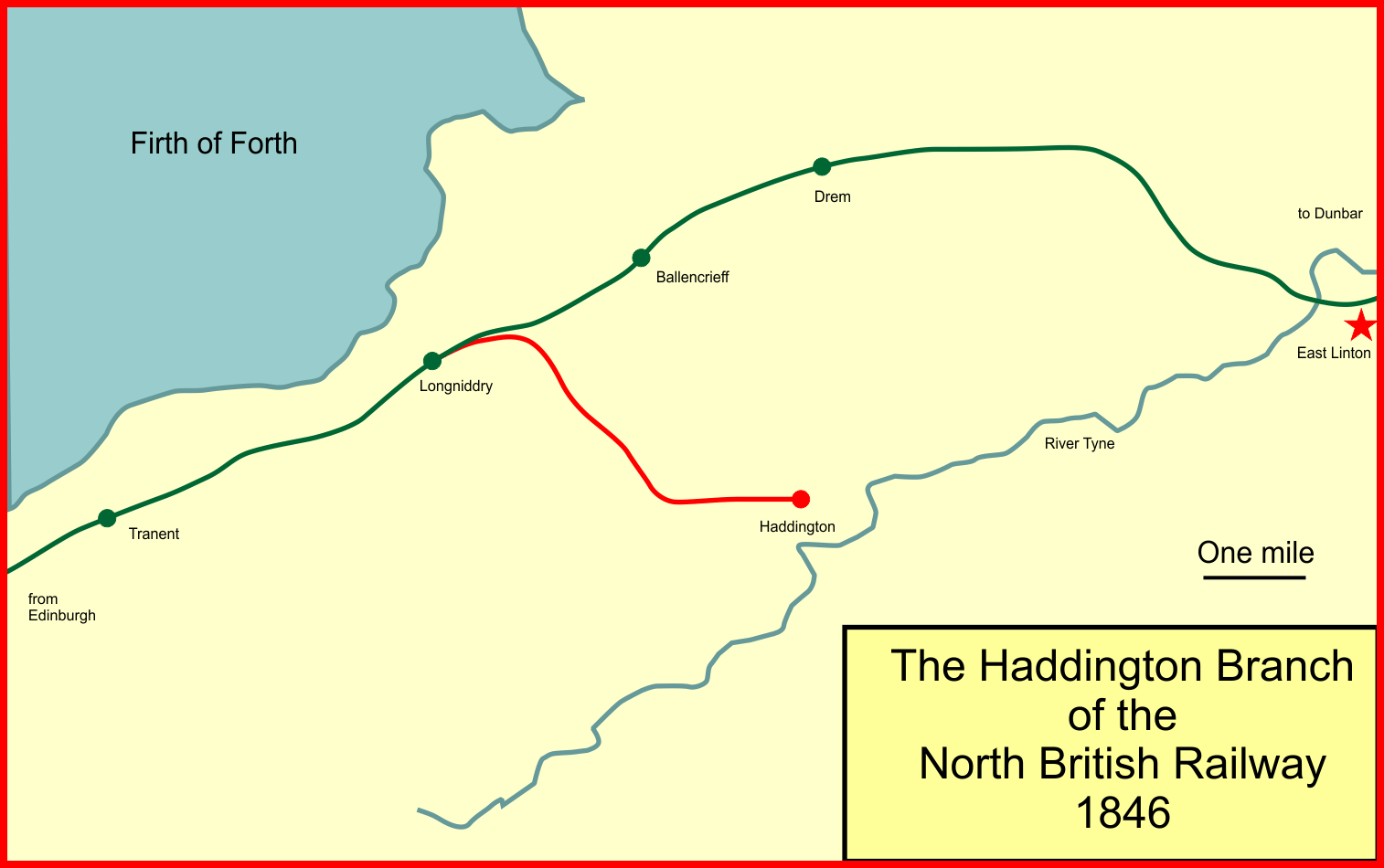 System map of the Haddington Branch of the North British Railway in East Lothian, Scotland, in 1846